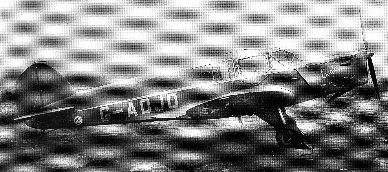 British Aircraft Eagle II G-ADJO, January 1936.